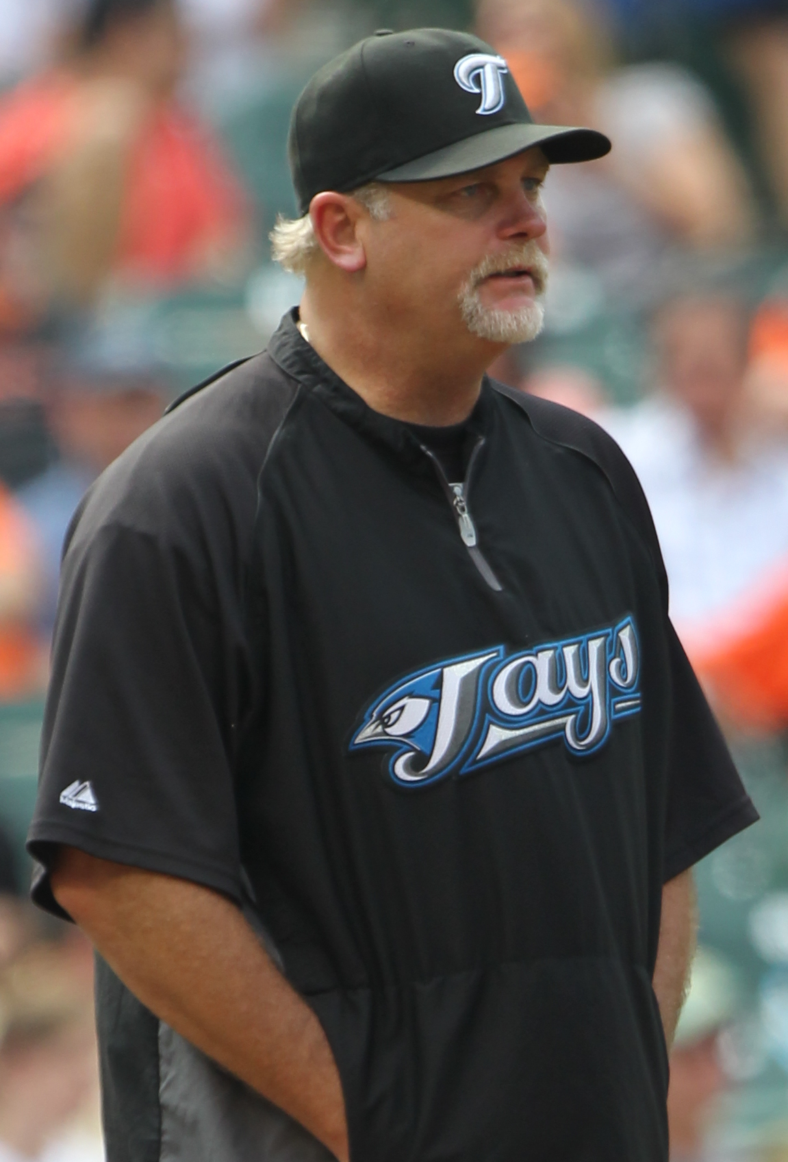 Toronto Blue Jays at Baltimore Orioles June 5, 2011